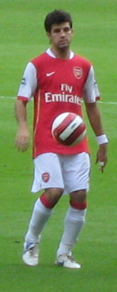 Francesc "Cesc" Fàbregas Soler (born May 4, 1987 in Arenys de Mar, Catalonia, Spain) (IPA: ['sɛsk 'faβɾəɣəs su'ɫeʁ̞]) is a Spanish (Catalan) footballer who plays for Arsenal F.C.